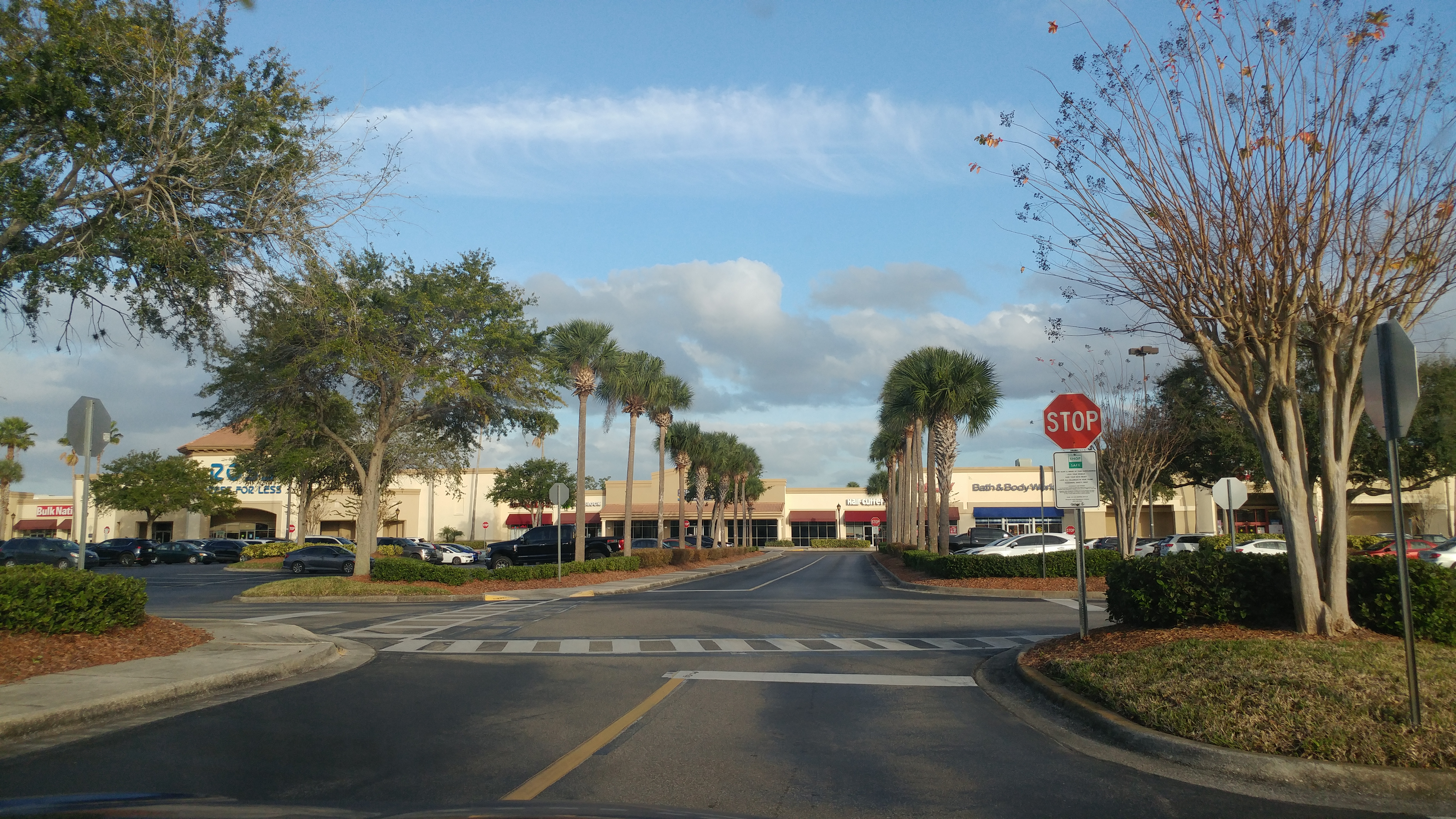 A photo of the plaza looking towards Ross, the former Payless Shoesource, Bath & Body Works, and Hair Cuttery